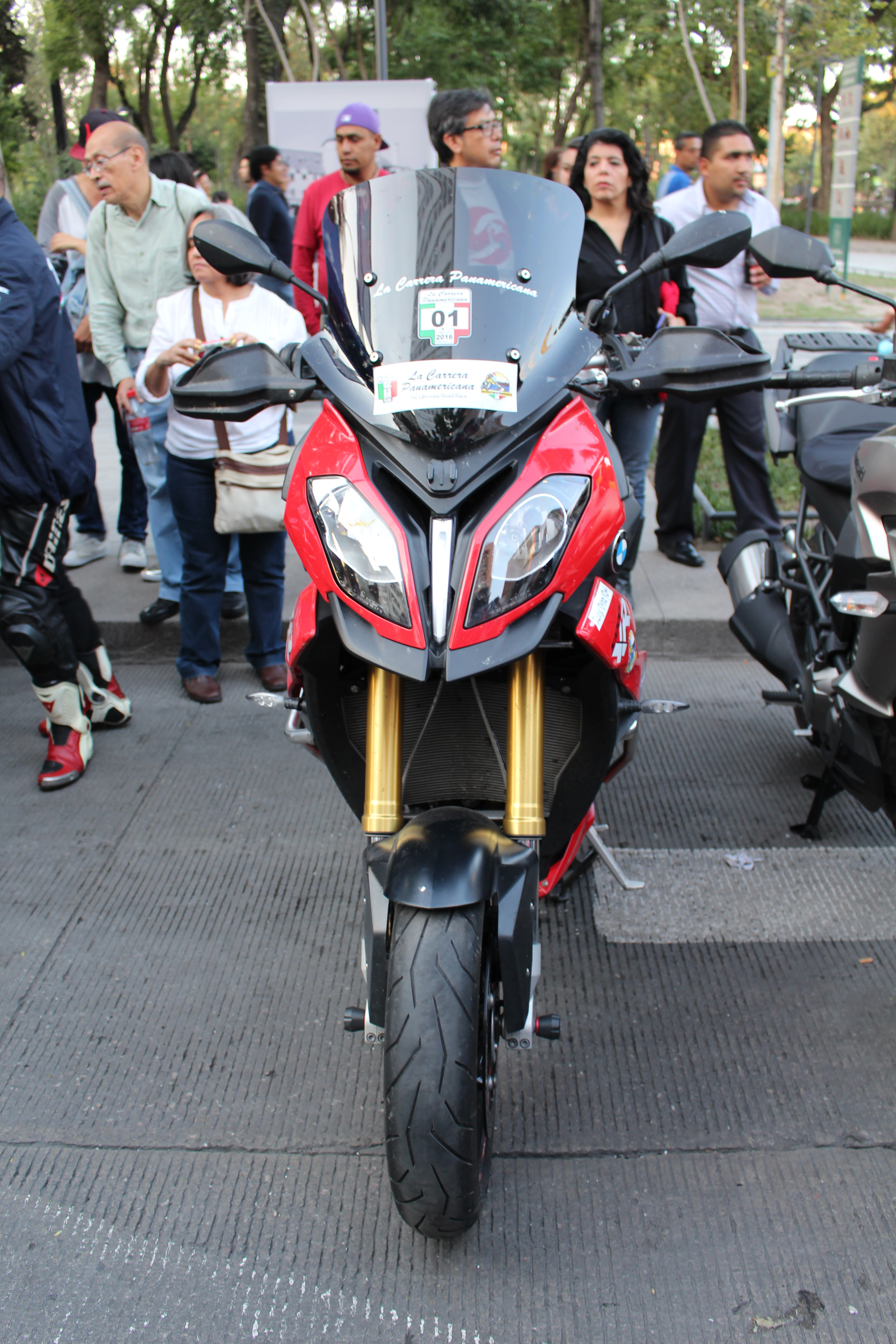 BMW S1000 XR. Belonging to the Motocicletas category. Driven by the mexican race driver Fernando de la Puente. Participating in the Carrera Panamericana 2016 in one of its hosts, Mexico City.